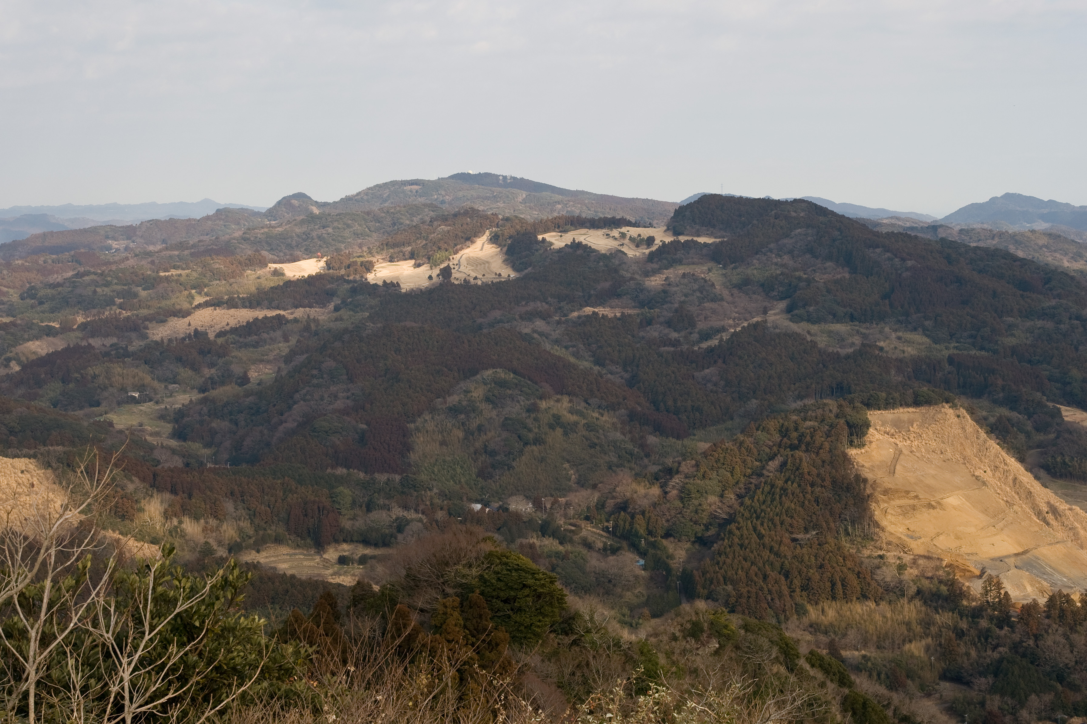 Mt.Atago as seen from Mt.Iyogatake, Minamiboso city, Chiba pref, Japan.